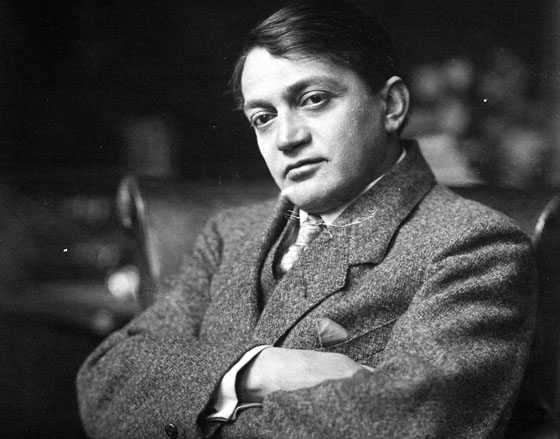 Portrait of Endre Ady Photograph by Aladár Székely. Hungarian National Museum, Historical Photographic Collection Hungarian National Museum Native nameMagyar Nemzeti MúzeumLocationBudapest, HungaryCoordinates47° 29′ 28″ N, 19° 03′ 46″ E Established1802Web pageHungarian National MuseumAuthority control : Q914141 VIAF: 159271424 ISNI: 0000 0001 1957 0247 LCCN: n50053619 OSM: 12963 GND: 41431-1 WorldCat institution QS:P195,Q914141